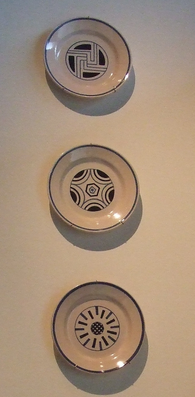 plates designed by Jeanne Malivel